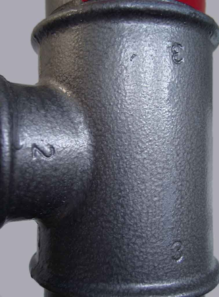 detail of a pipe fitting on a riser